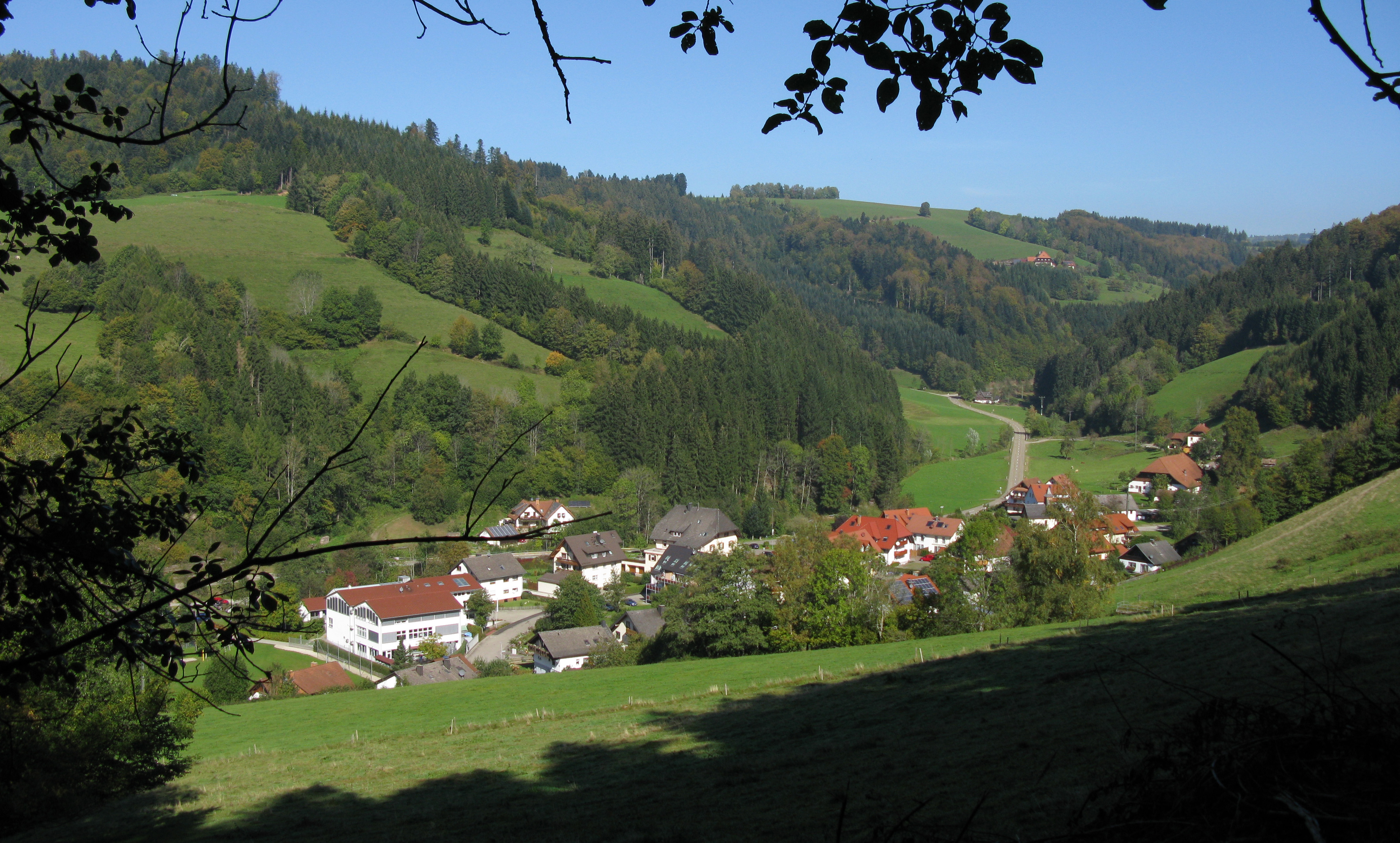 Wagensteige with Wagensteig, part of Buchenbach